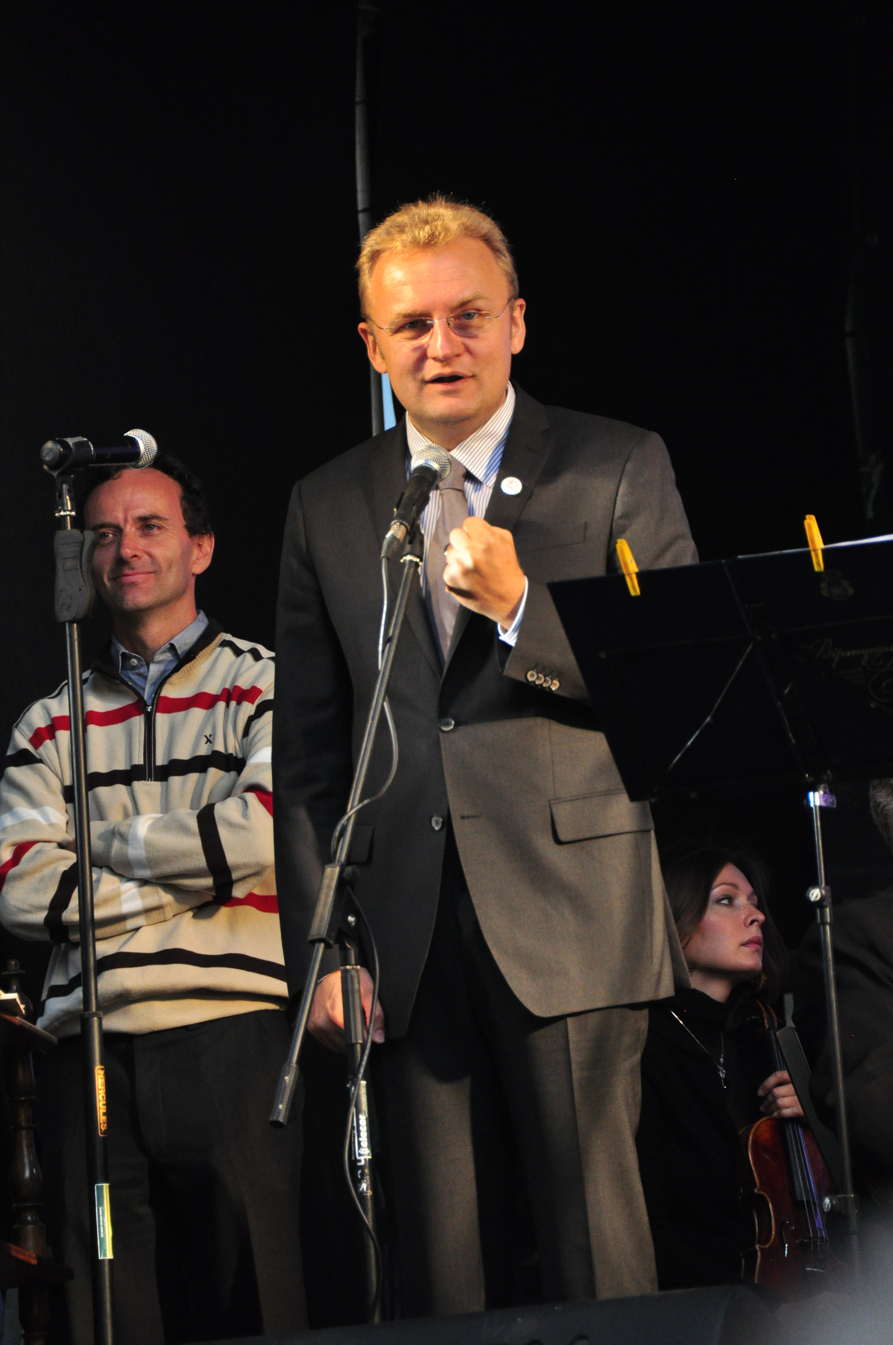 Lviv city mayor Andriy Sadovyy while opening concert on the celebration of the Bohomolets Street in Lviv, August 29, 2010